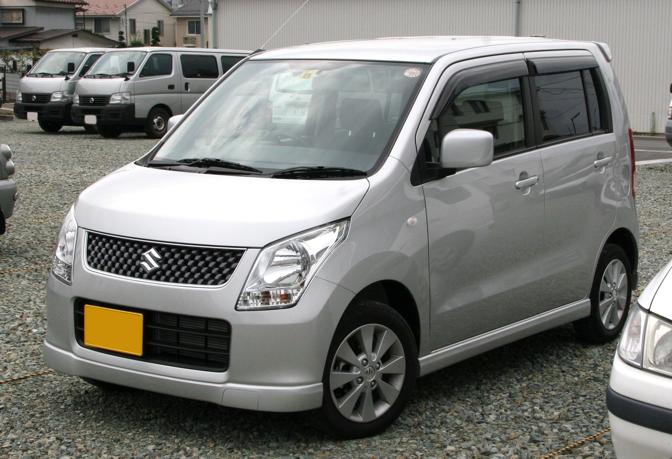 Suzuki Wagon R